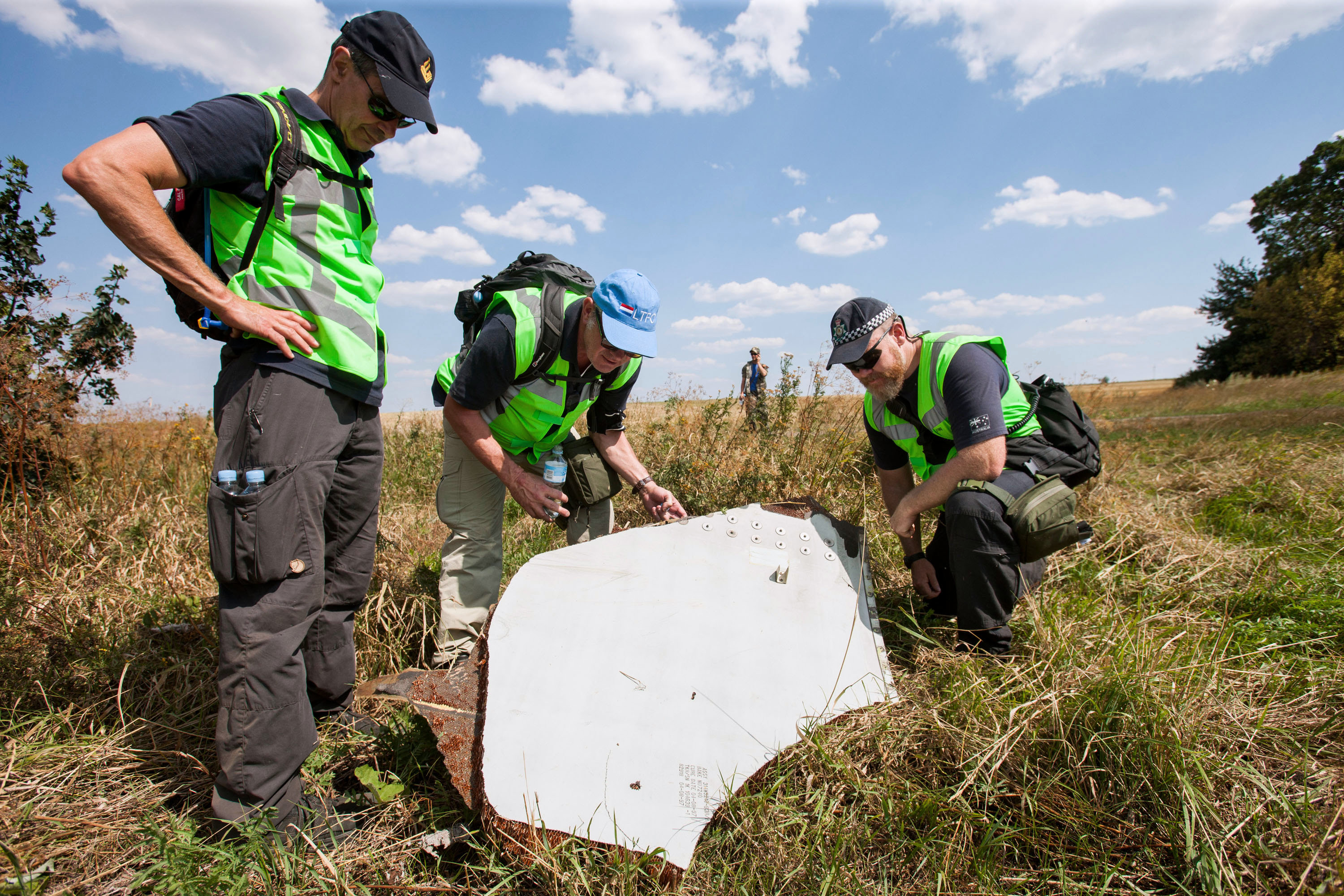 Investigation of the crash site of MH-17 by Dutch and Australian police officers.